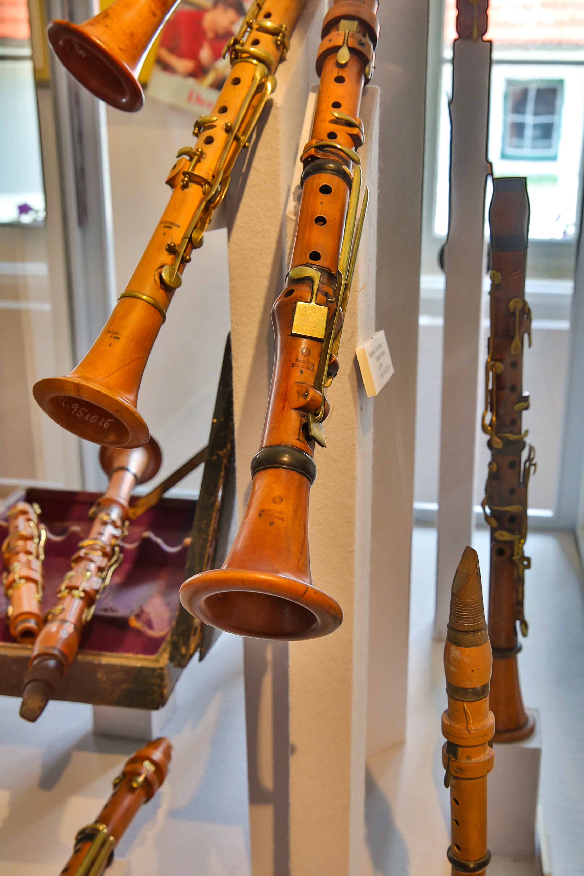 Austrian Brass Music Museum in Oberwölz / Styria / Austria / EU. Clarinets in a showcase.